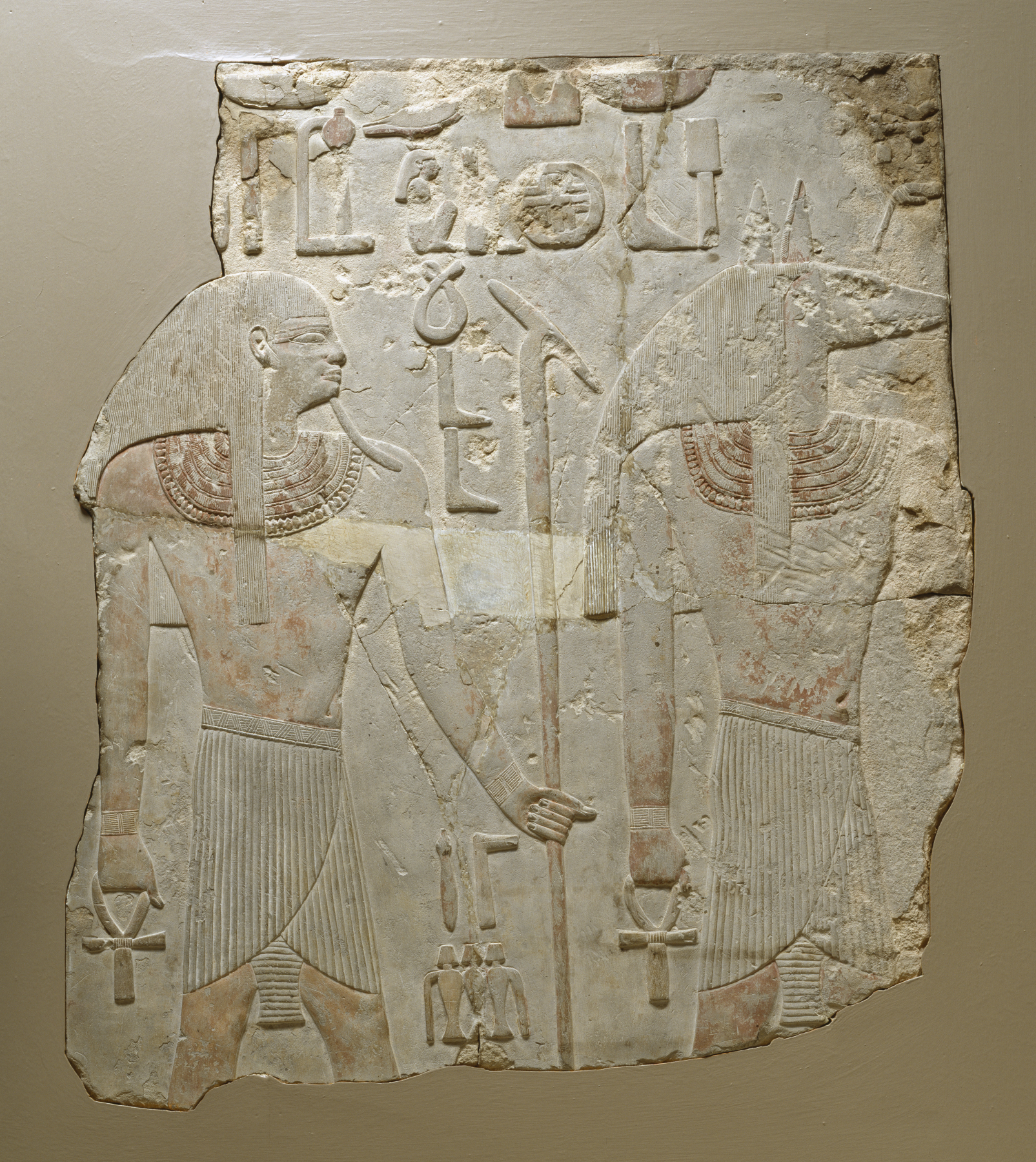 Once part of a scene showing a procession of gods, this fragment shows the jackal-headed-god Wepwawet and the earth-deity Geb holding divine was scepters and ankhs (life signs). Each deity is identified by the hieroglyphs near his figure, and each wears a long wig, broad collar, and shendyt (pleated skirt). The figures' rounded limbs lacking musculature, large eyes outlined with lines running back to the ears, and almost flat eyebrows are elements of the early 11th-Dynasty style.